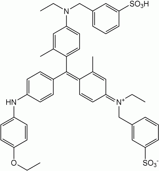 Description: Chemical structure of Coomassie Author, date of creation: selfmade by Shaddack, 5 November 2005 Source: self-made Copyright: Public Domain (PD) Comments: b/w hires PNG; ChemDraw